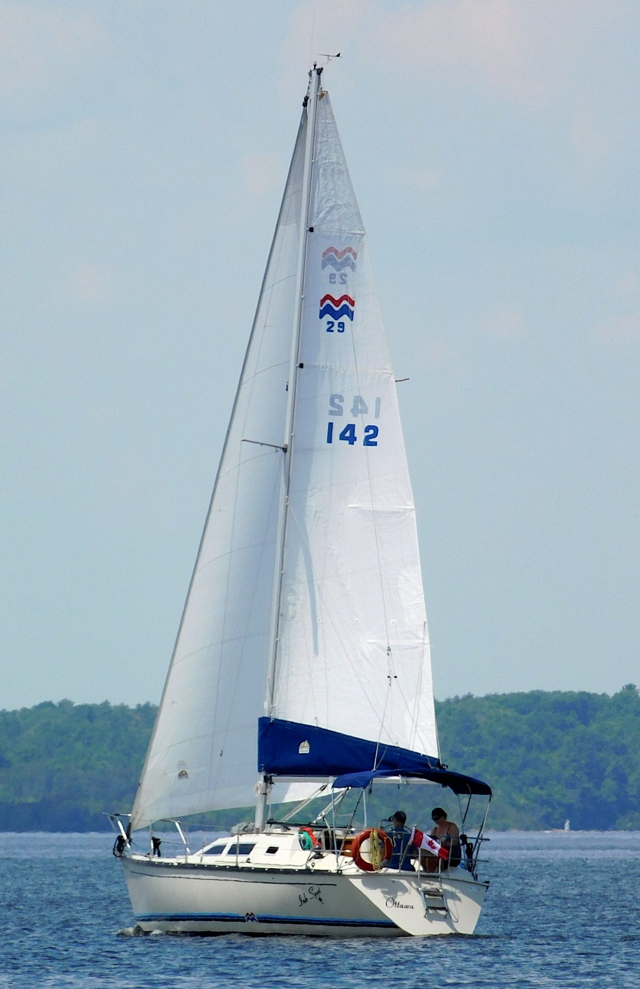 A Mirage 29 sailboat named Ink Spot.